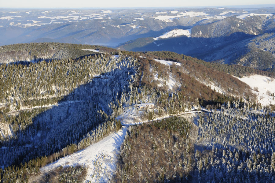 Aerial Picture Schauinsland (Black Forest, Germany)